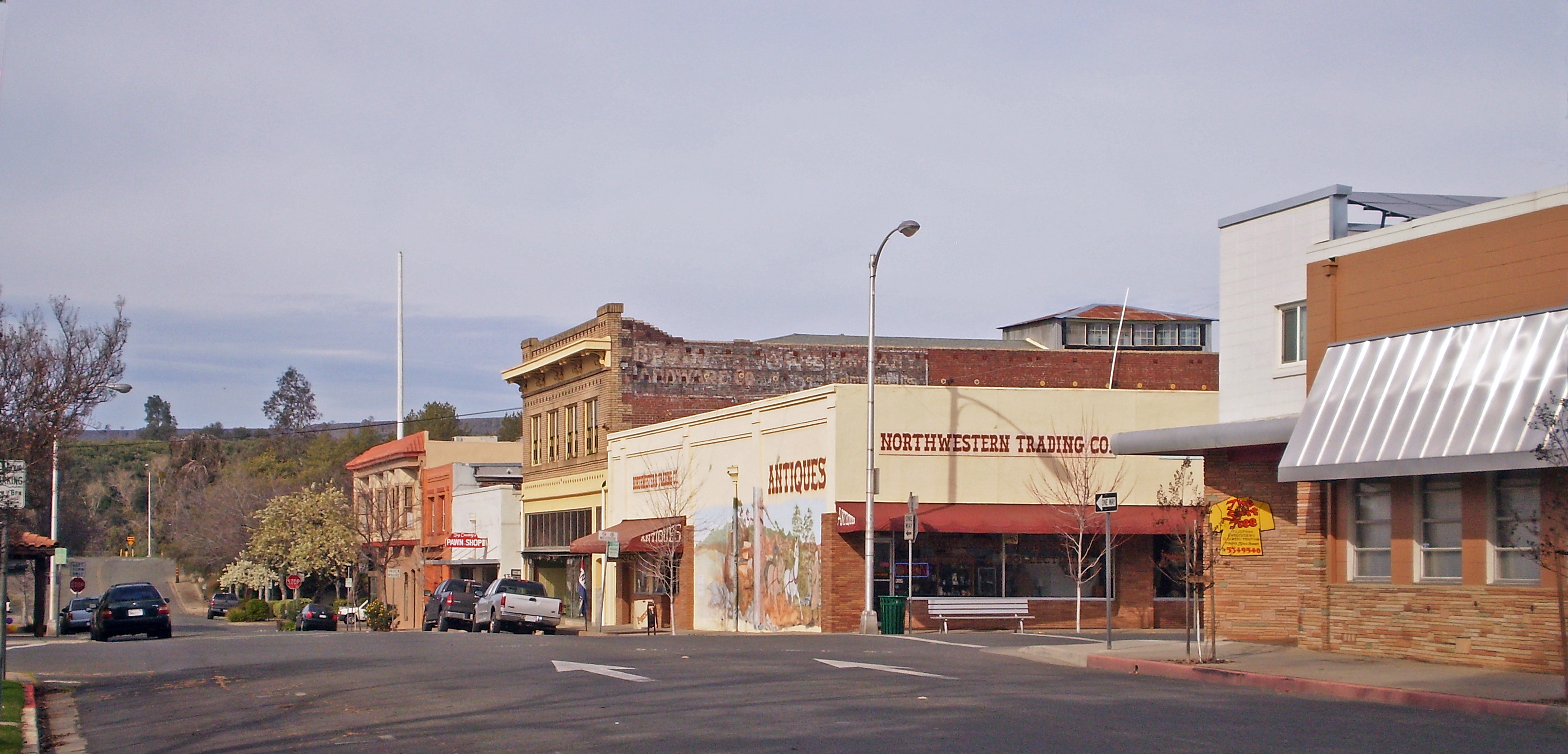 Historic downtown Oroville.